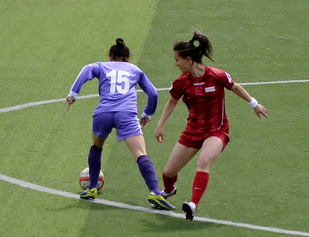 Damla Bozyel against Fatma Kara (red) playing for Kdz. Ereğlispor in the 2013-14 season